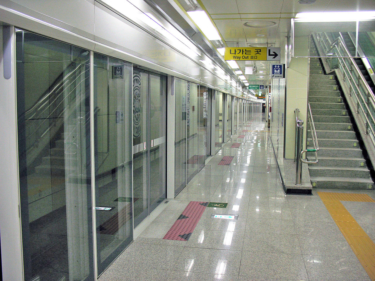 The platform of Daejeon Subway Line 1 Banseok Station.